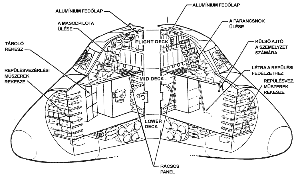 Crew cabin structure